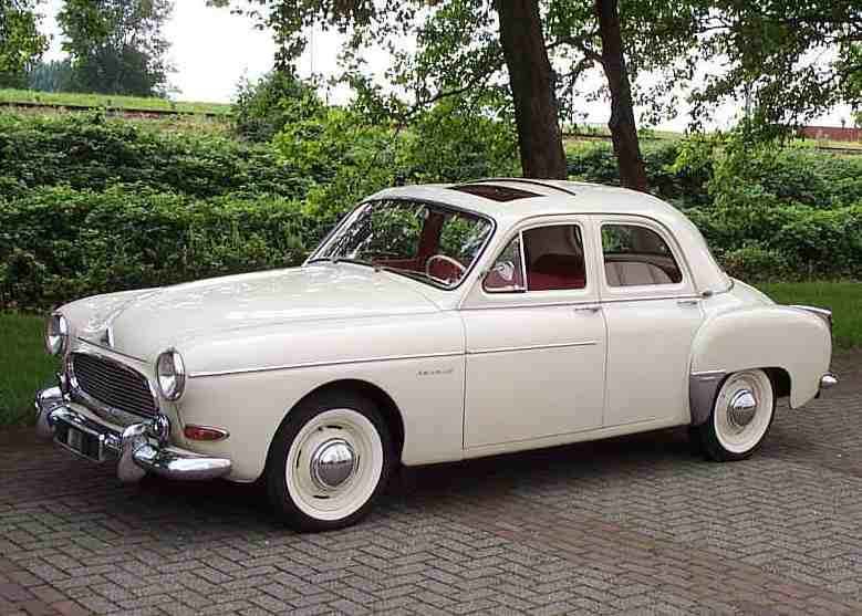 1959 Renault Frégate Transfluide I have taken an existing wikipedia commons image and cropped it a little more in order to make it more suitable for use on small screens. I hope the uploader of the original excellent picture (which I have NOT repeat NOT changed!) will forgive me.